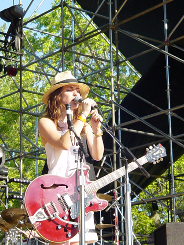 Leslie Feist performing at the Olympic Island Festival 2006